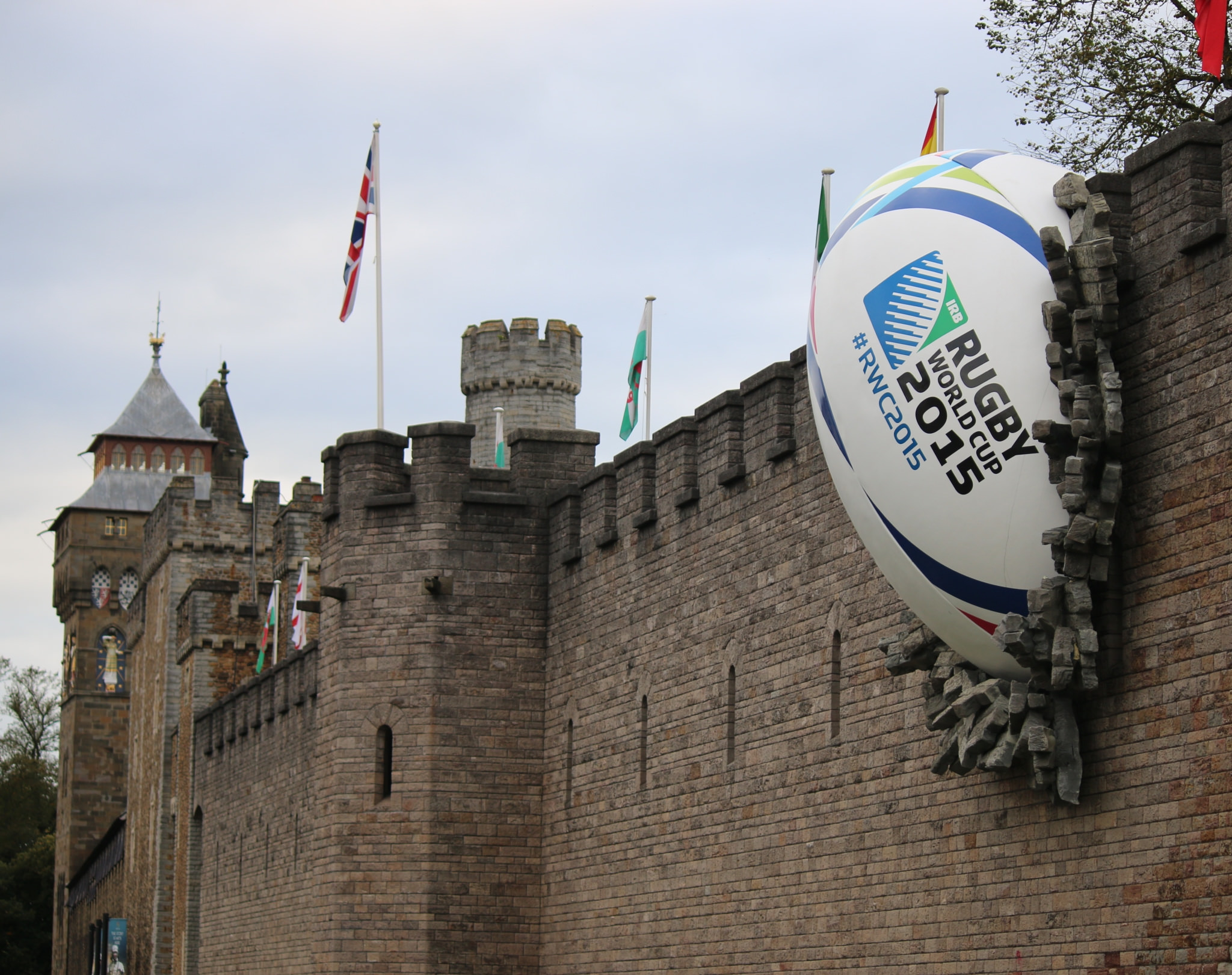 Rugby ball model installed into Cardiff Castle walls during 2015 Rugby World Cup.